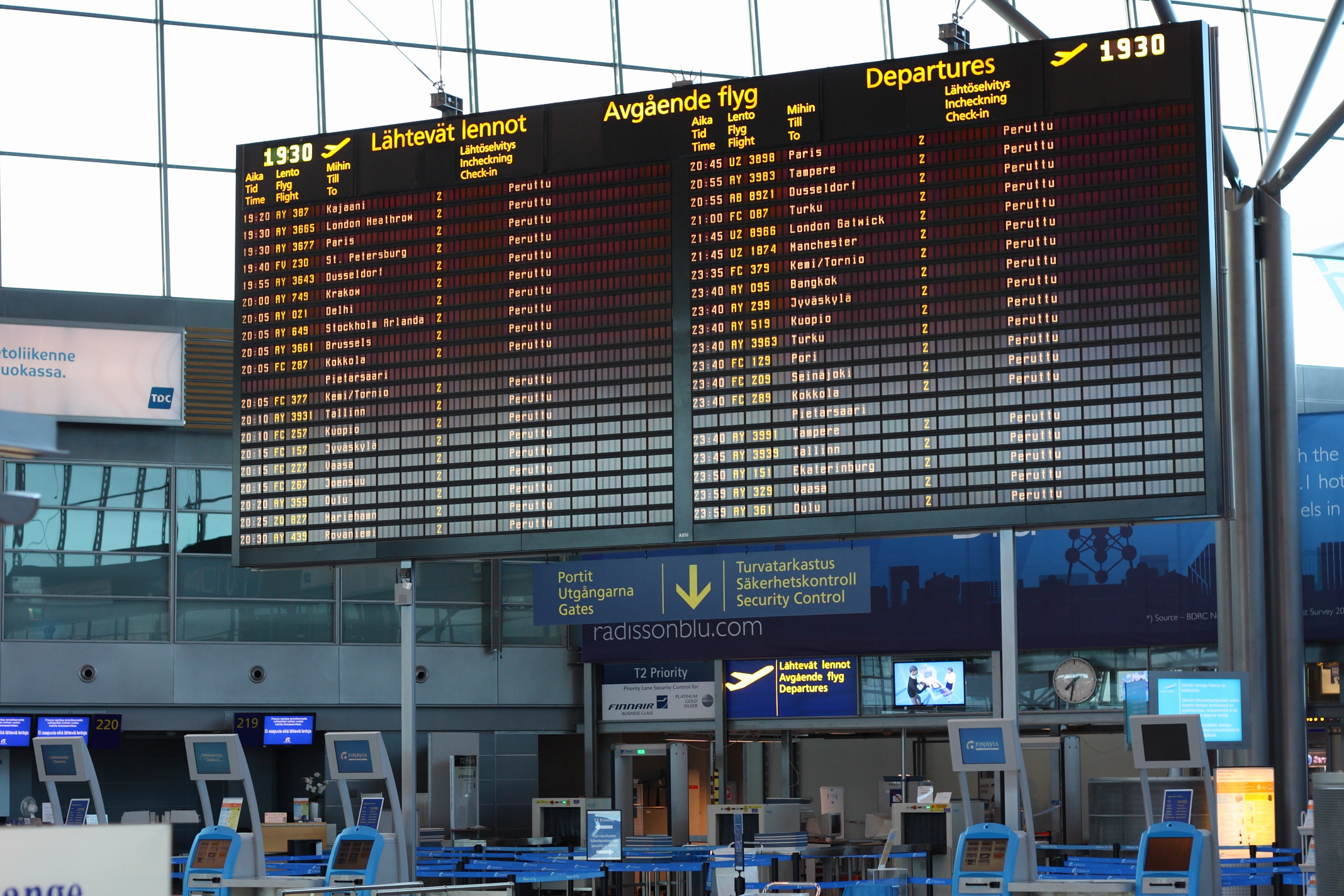 The departures board of Helsinki-Vantaa airport during the Eyjafjöll 2010 eruption with all flights cancelled.